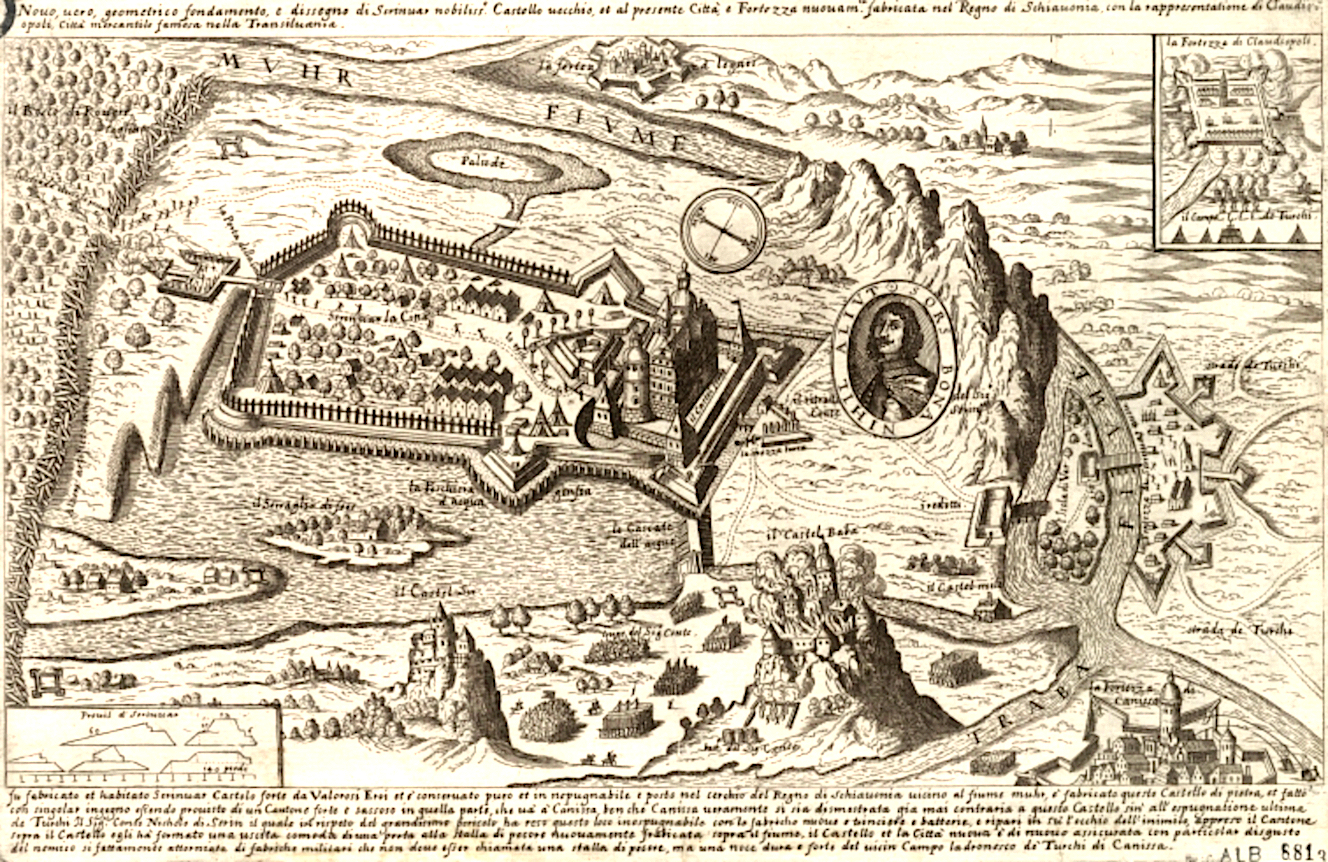 Novi Zrin in „Ortelius redivivus et continuatus” by Martin Meyer (Frankfurt, 1665.)